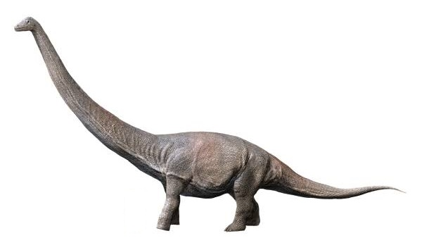 Life reconstruction of Dreadnoughtus schrani